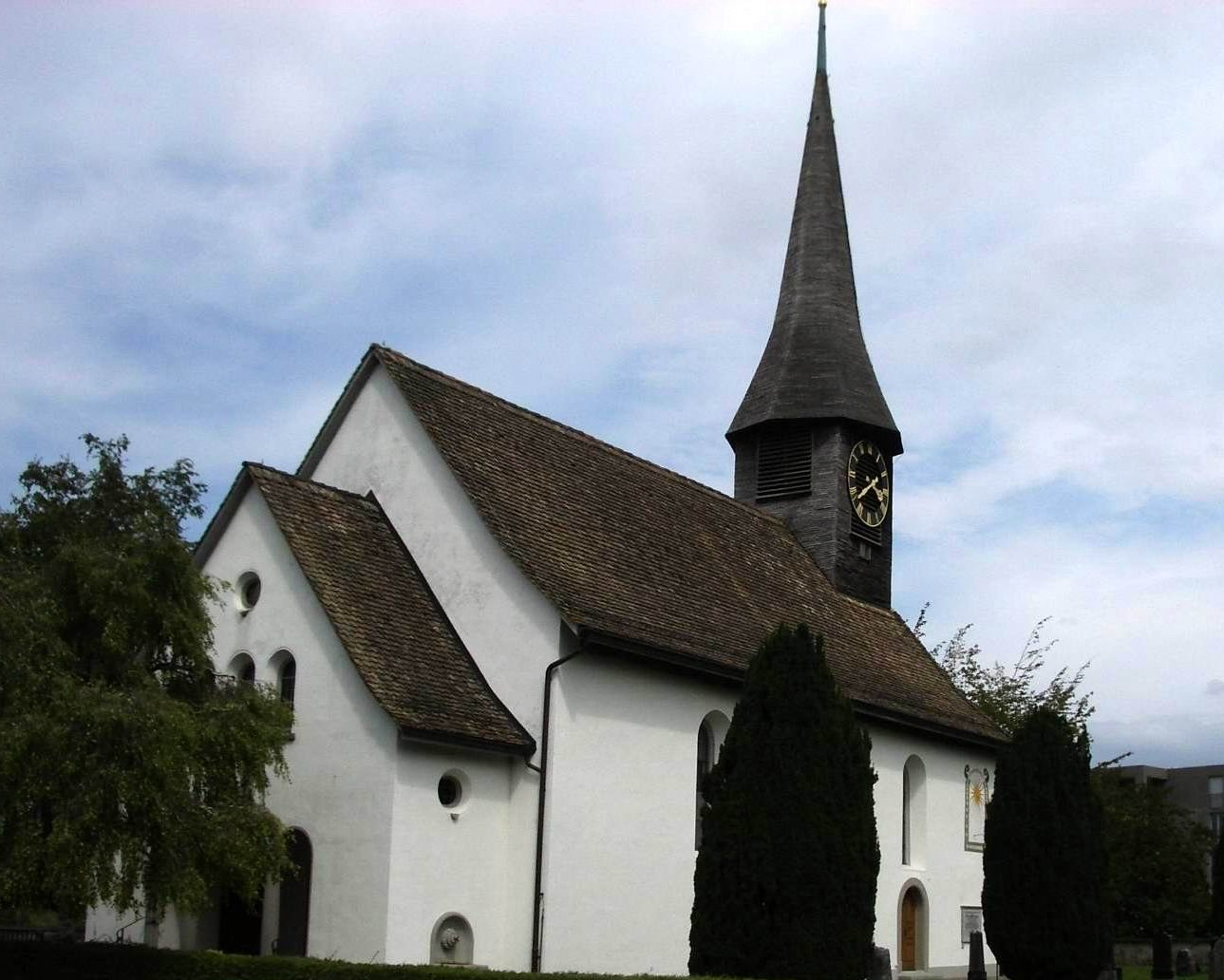 Affoltern, Zurich, Switzerland